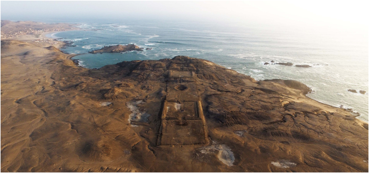 Aerial view of Las Aldas after the El Niño phenomenon, 2017. By Ares Consulting & Management.